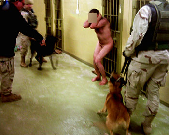 10:47 p.m. Dec. 12, 2003. Two dog handlers have dogs watching detainee, while GRANER orders detainee to floor. SOLDIER(S): CPL GRANER, SGT SMITH and SGT CORDONA two dogs are Duco and Marko. All caption information is taken directly from CID materials. U.S. Army / Criminal Investigation Command (CID). Seized by the U.S. Government. Note: Image from Abu Ghraib released May 9, 2004. An Iraqi inmate at Abu Ghraib prison terrorized by dogs.